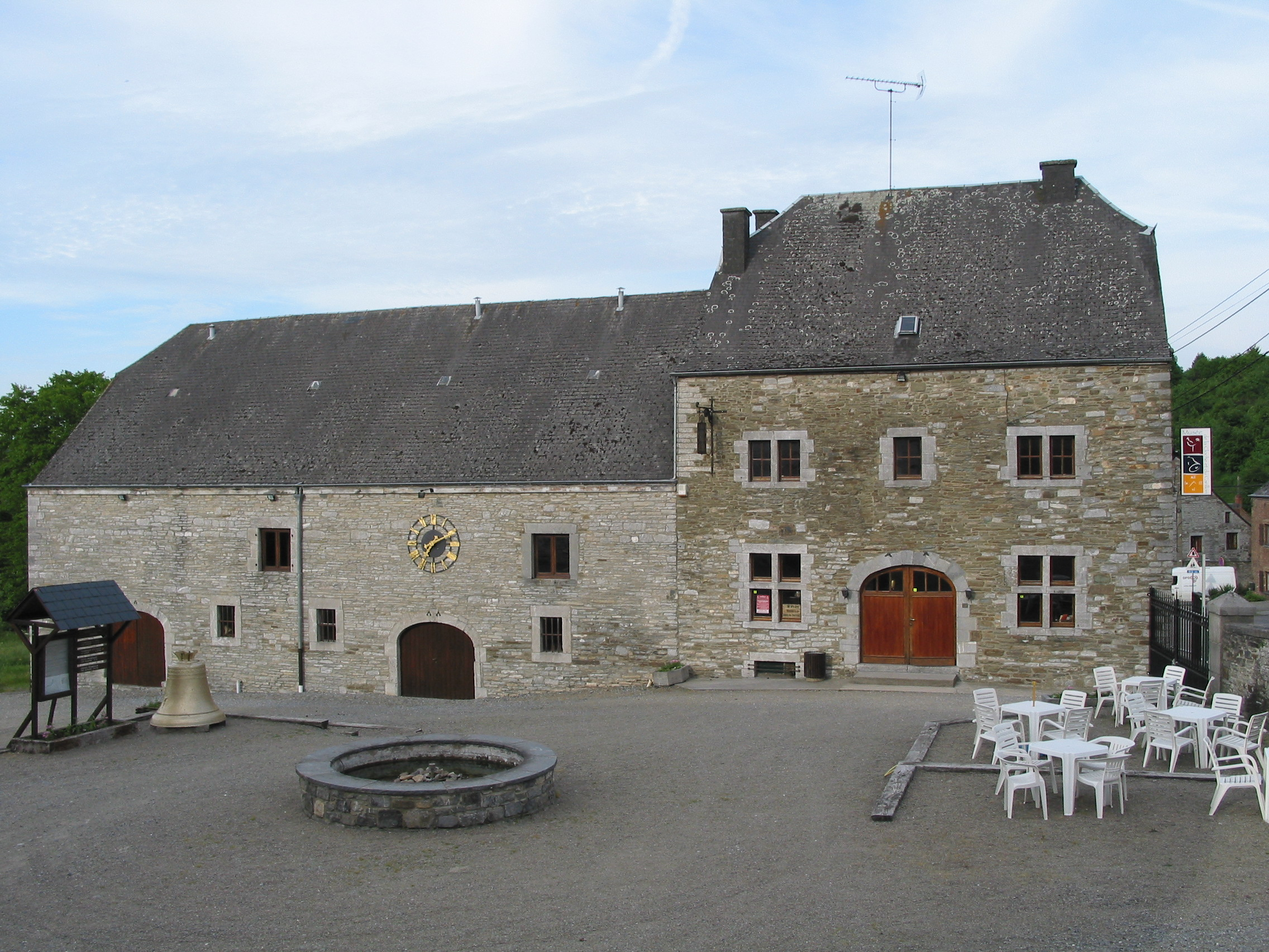 Tellin (Belgium), bell and carillon museum.